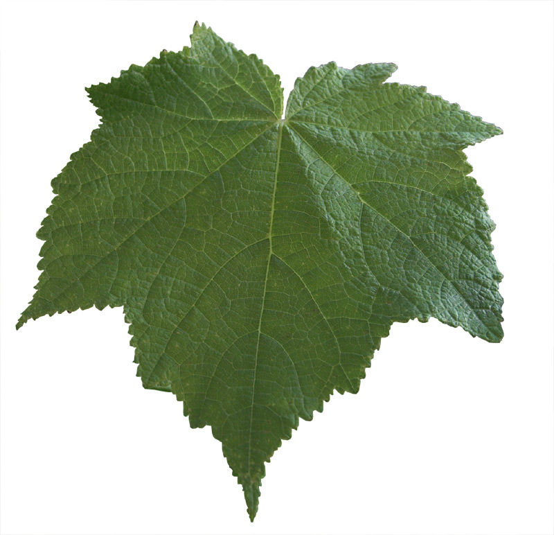 Description: Single leaf from Sparrmannia africana Source: photographed in 2004 by Martin Bahmann Photographer: Martin Bahmann